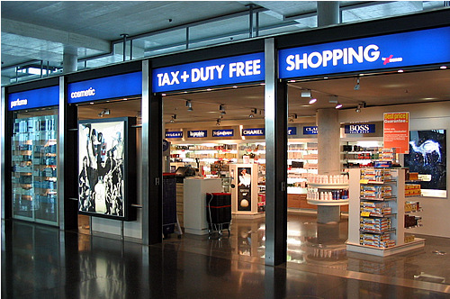 A duty-free shop in the "Gates E" terminal, Zurich International Airport, Kloten, Switzerland.